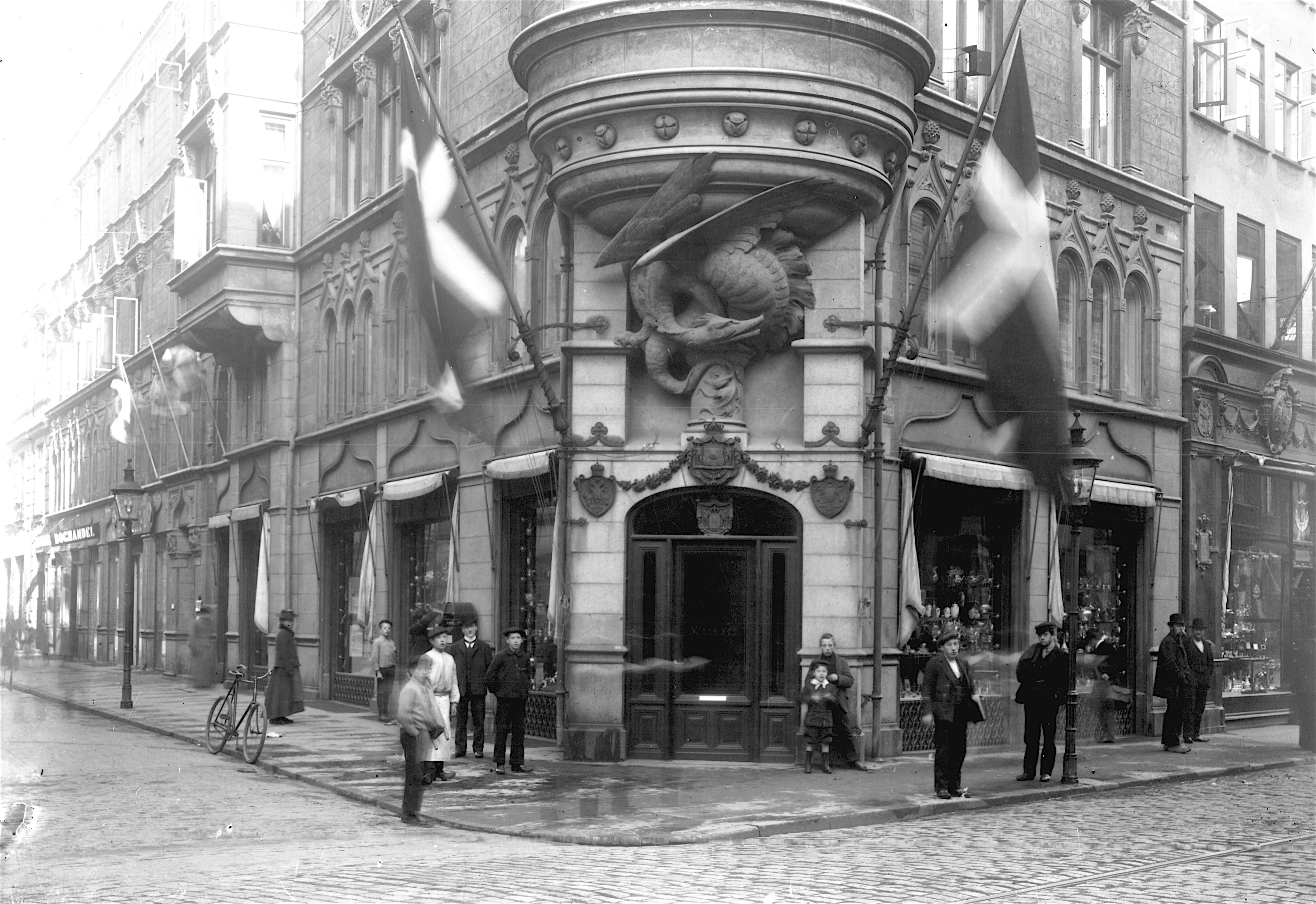 Hofjuveler Michaelsen's shop at i Bredgade 11 in Copenhagen, Denmark